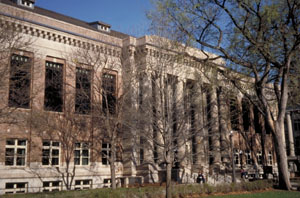 Walter Library where MSI is housed.